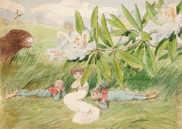 typical work with fairies